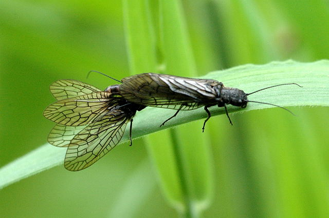 Picture taken in Commanster, Belgian High Ardennes . Species: Sialis fuliginosa couple